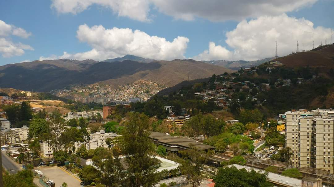 Panoramic view form UD-4